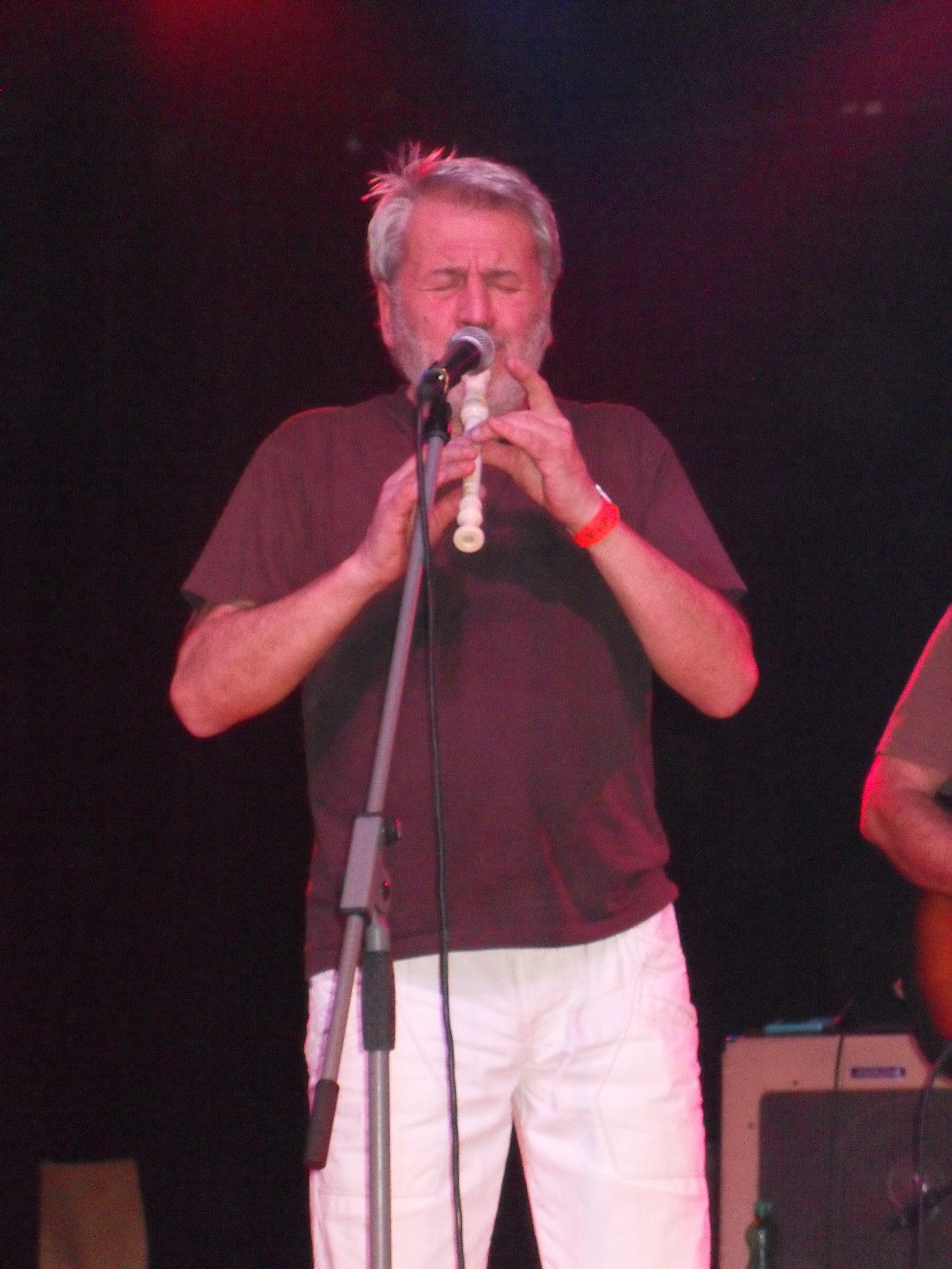 Drummer and vocalist Zdeněk Kluka of Czech band Progres 2, Brno, Czech Republic